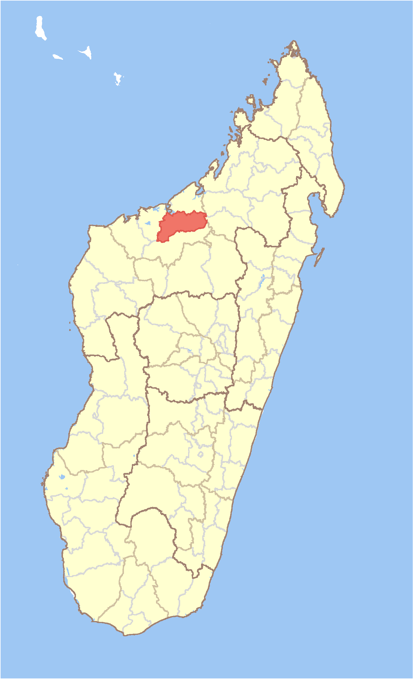 Map of Madagascar with Marovoay District highlighted